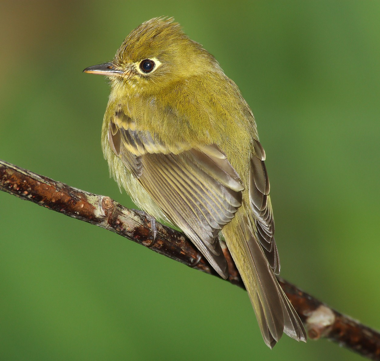 Yellowish Flycatcher -- Parque Internacional La Amistad, Panama -- 2008 January.